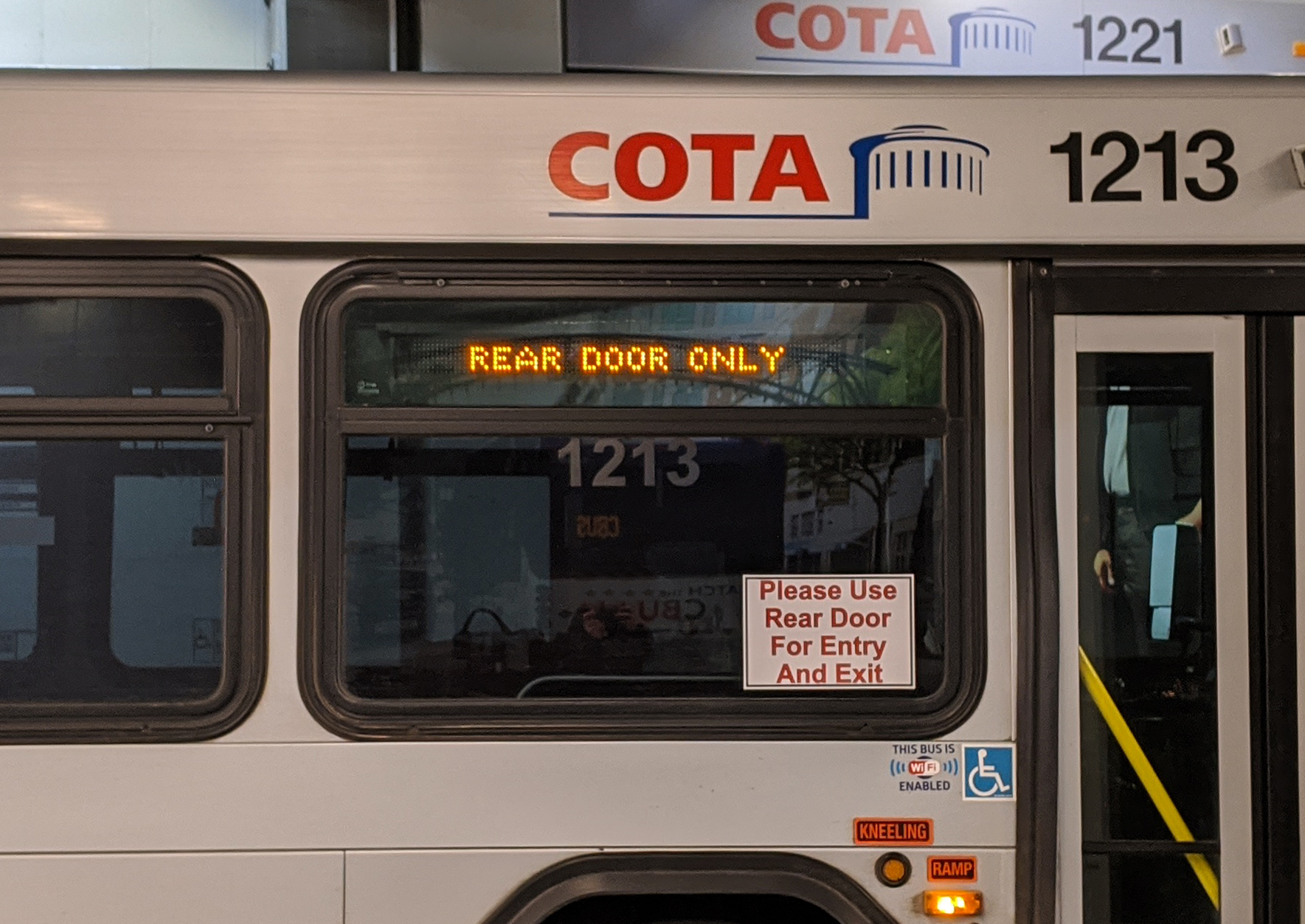 COTA rollsign.